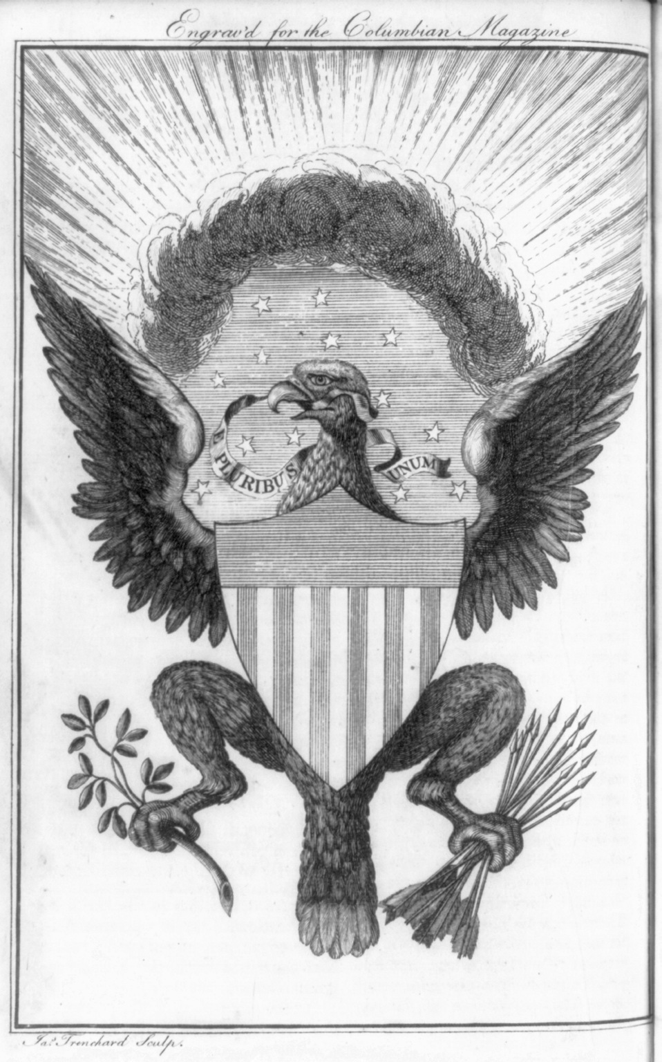 One of the first versions of the obverse of the Great Seal of the United States, also the U.S. coat of arms, engraved for the September 1786 Columbian Magazine. This is an original interpretation from the written blazon, differing from the Great Seal die which had been made in 1782 when the seal was introduced. Similar versions were used on Indian Peace Medals in the 1790s, and also on a centennial medal in 1882.